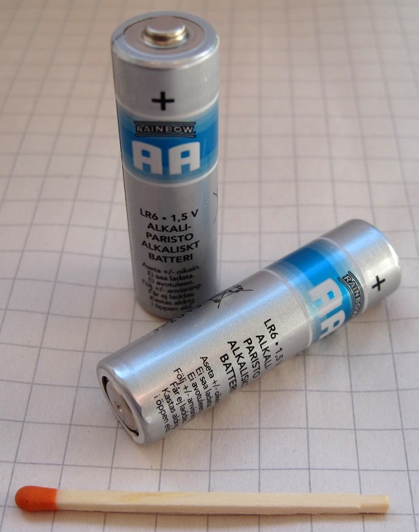 2 AA type batteries with a matchstick for comparison. This is an ordinary matchstick like the kind that comes in match boxes. It is not a giant or super matchstick, in fact you probably have one in your home right now!